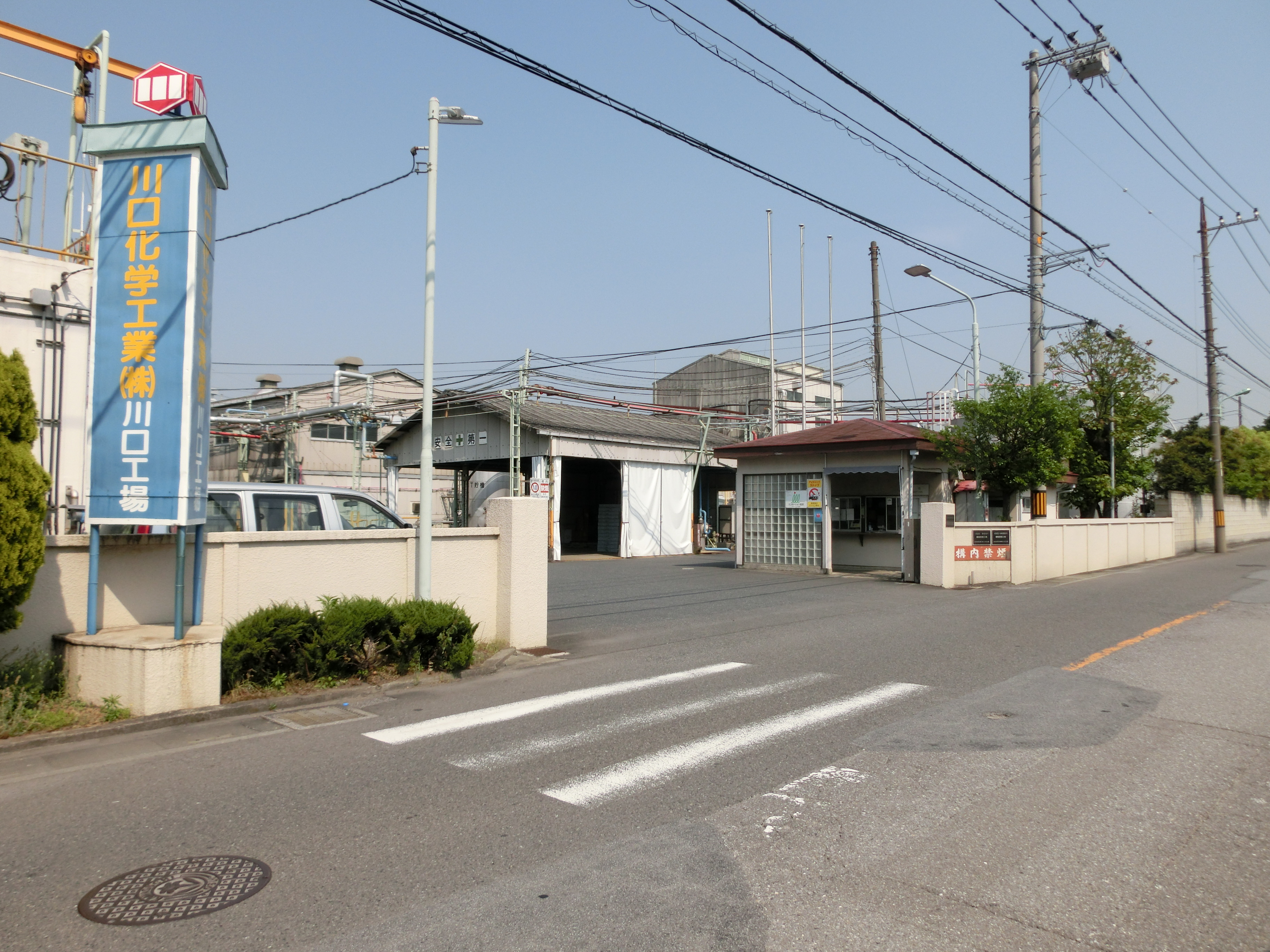 Kawaguchi Chemical Industry Kawaguchi Factory